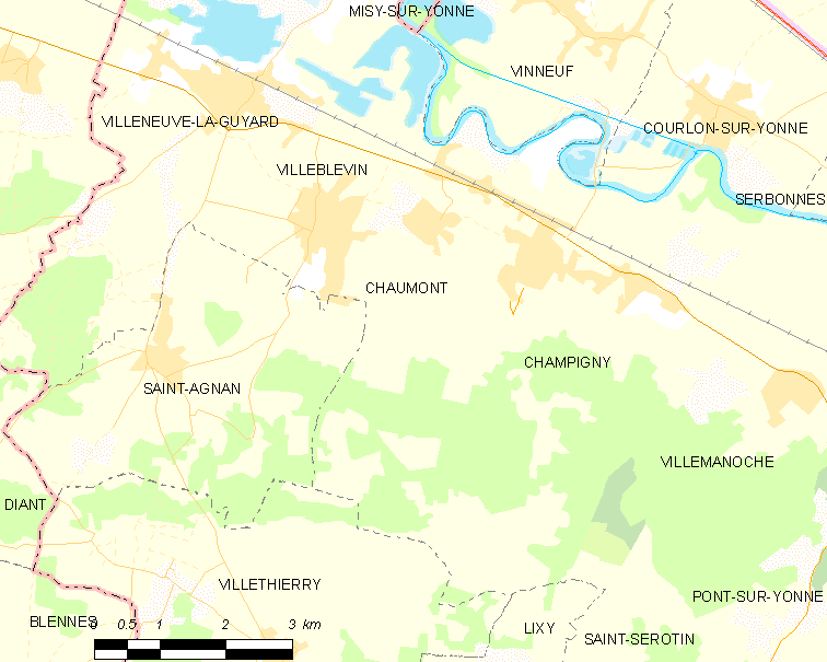 Map of French municipality Chaumont